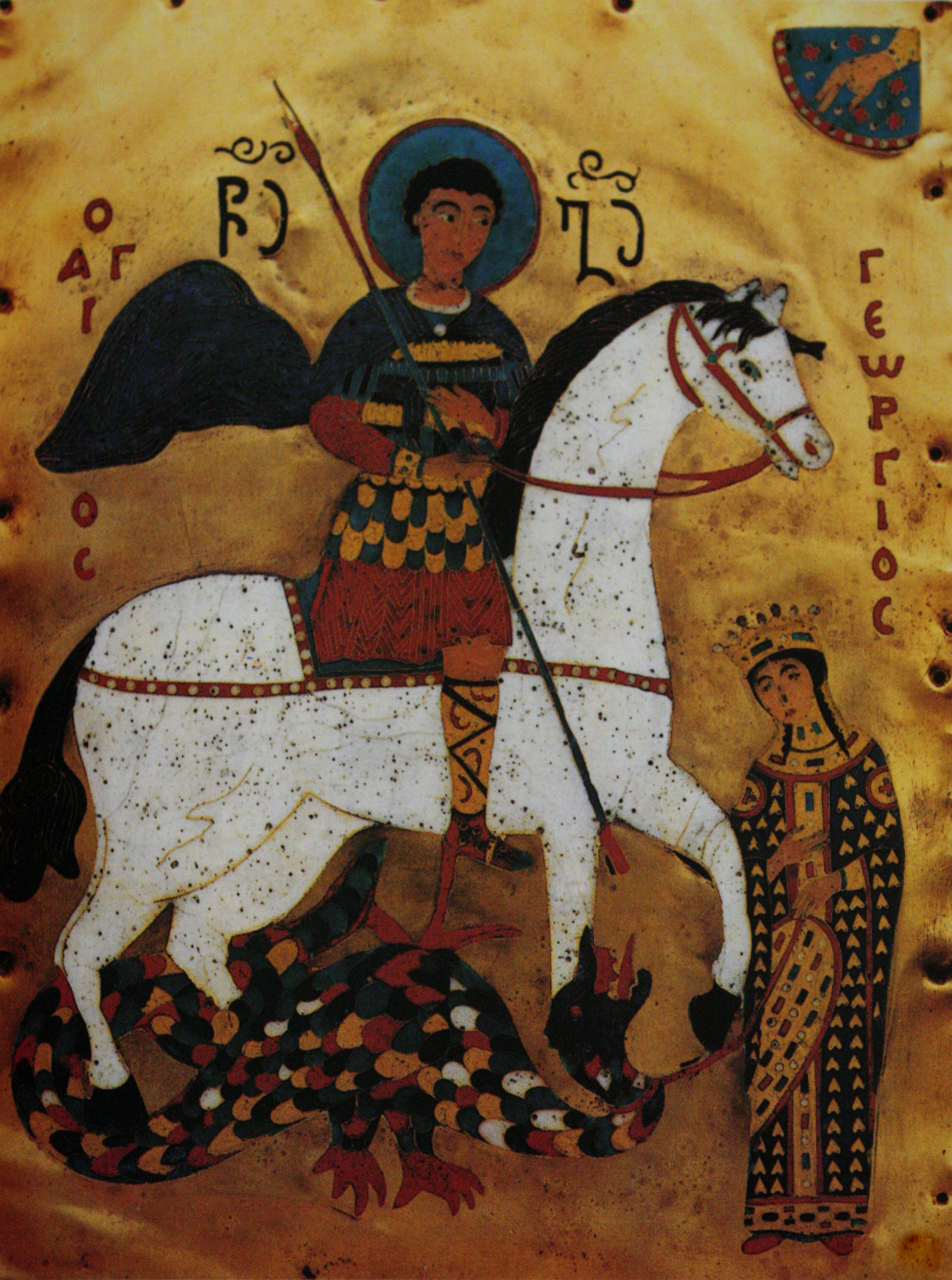 A plague, on which is represented St.George rescuing the emperor's daughter